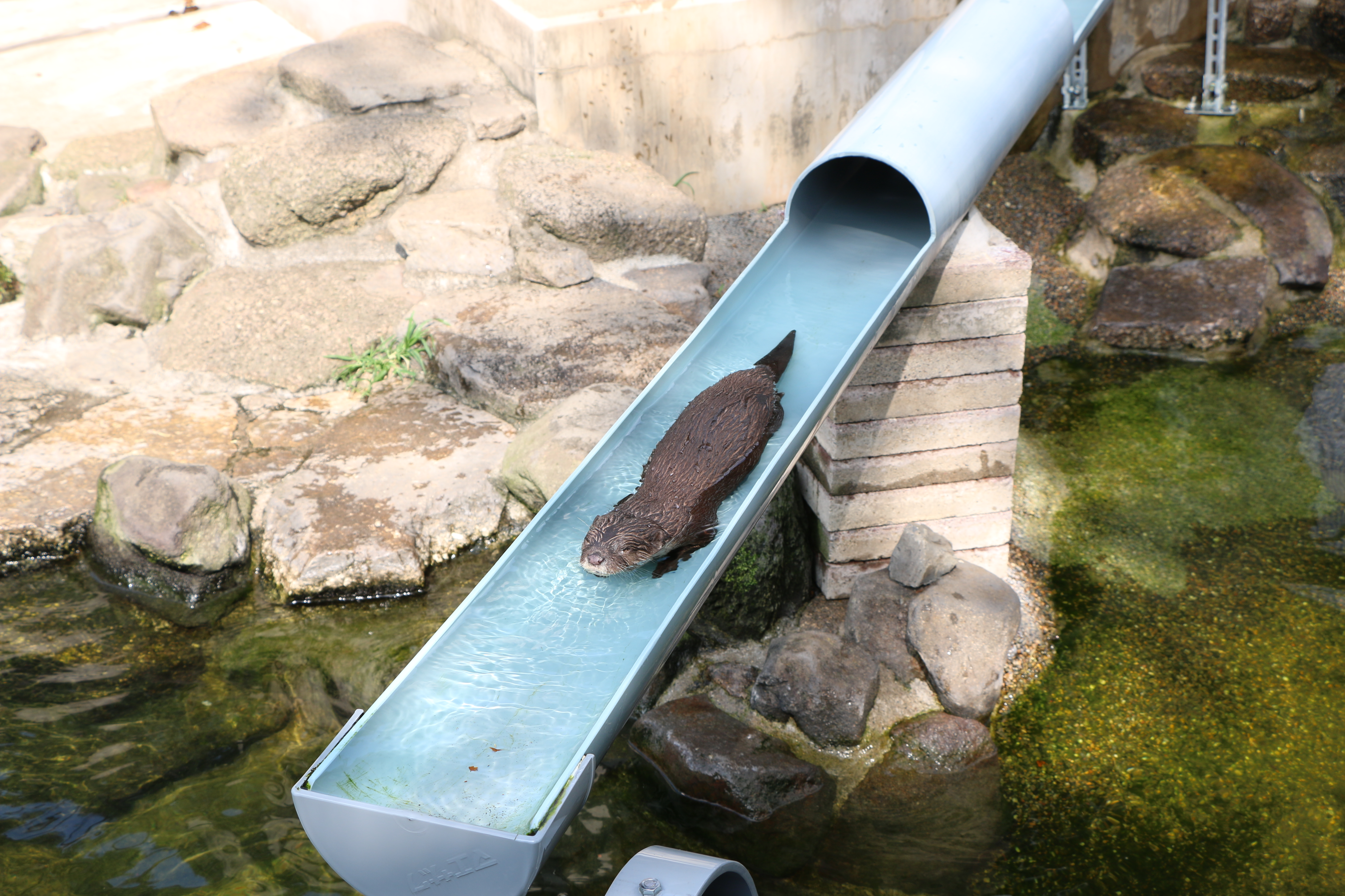 Aonyx cinerea watersliding at the Ichikawa City Zoological and Botanical Garden